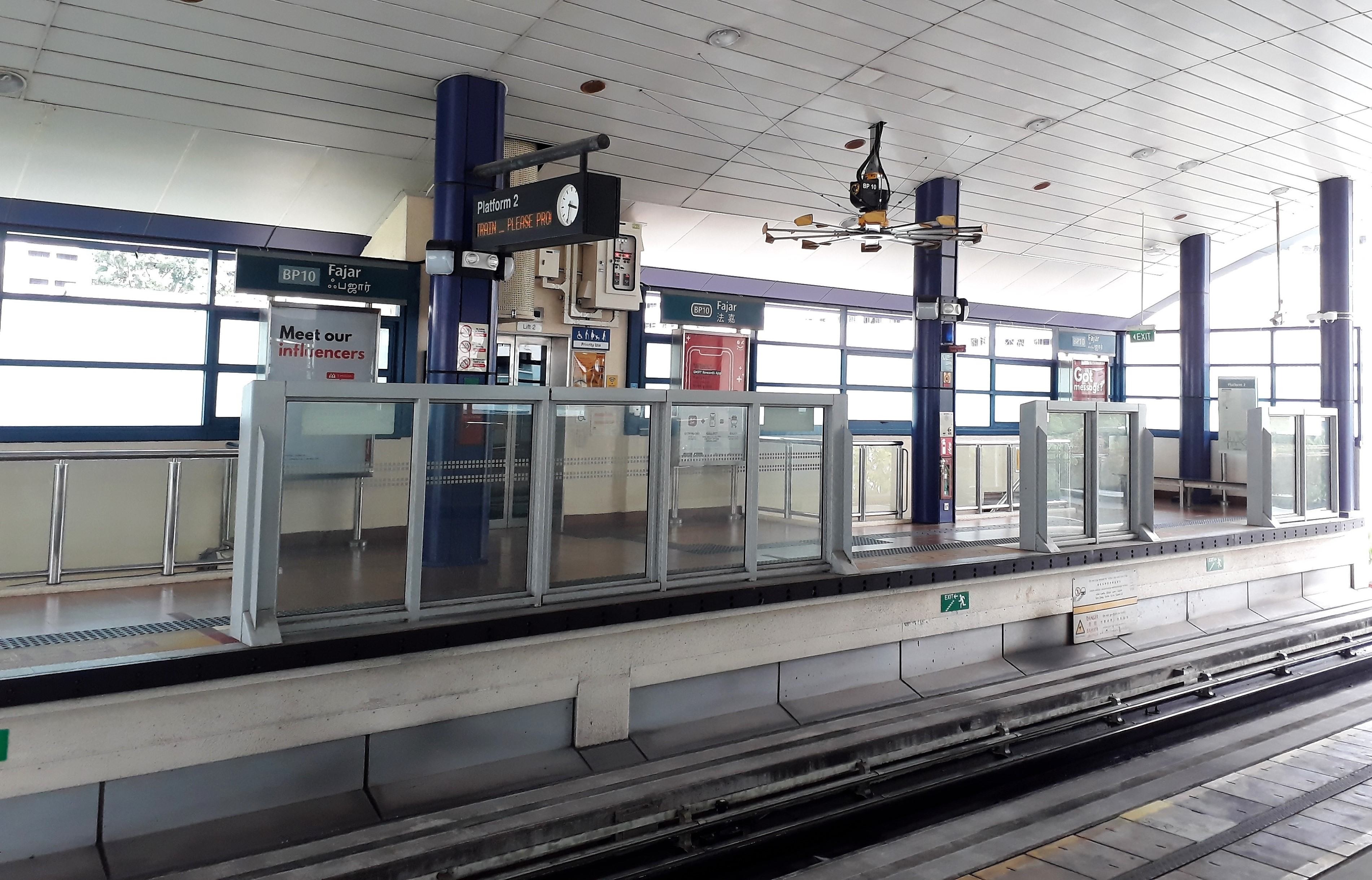 Platform 2 of Fajar LRT Station